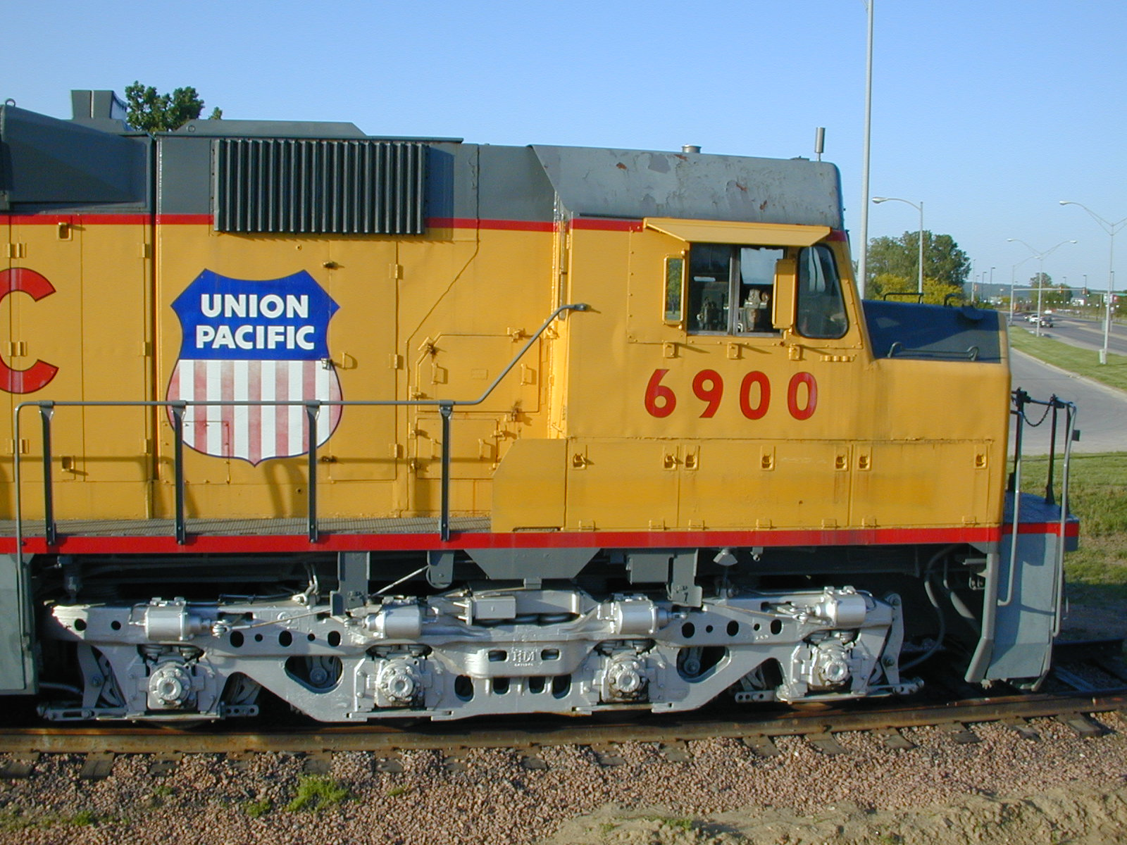 Union Pacific EMD DDA40X 6900, the class locomotive (first one built) taken in Omaha, Nebraska. The locomotive has since been relocated to Kenefick Park. This image is of the cab and front truck